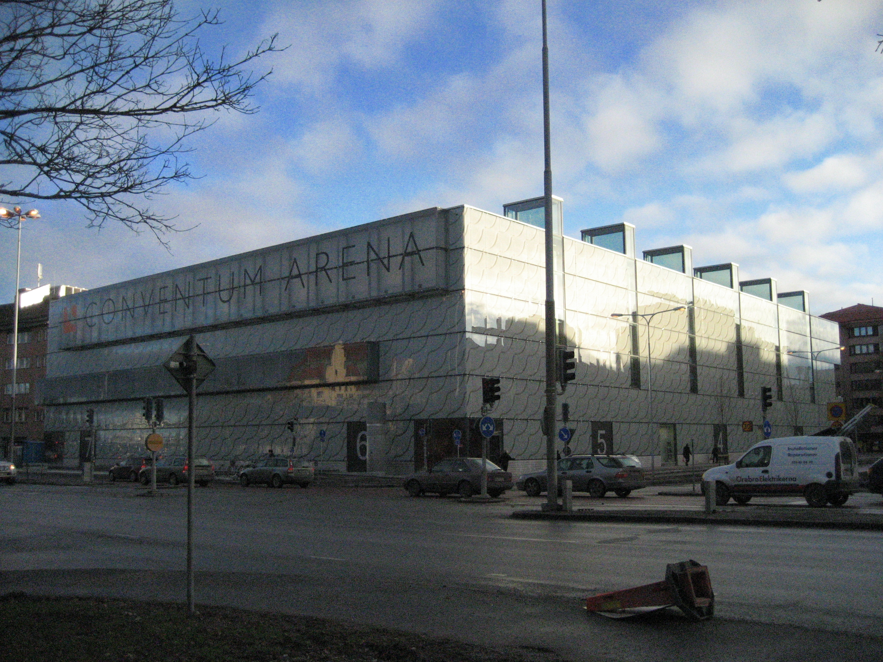 Conventum Arena — convention center in Örebro, Sweden.